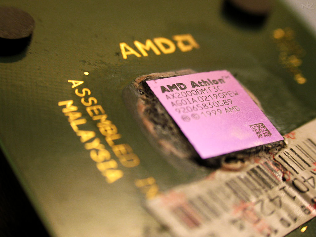 Athlon xp 2000+ rip